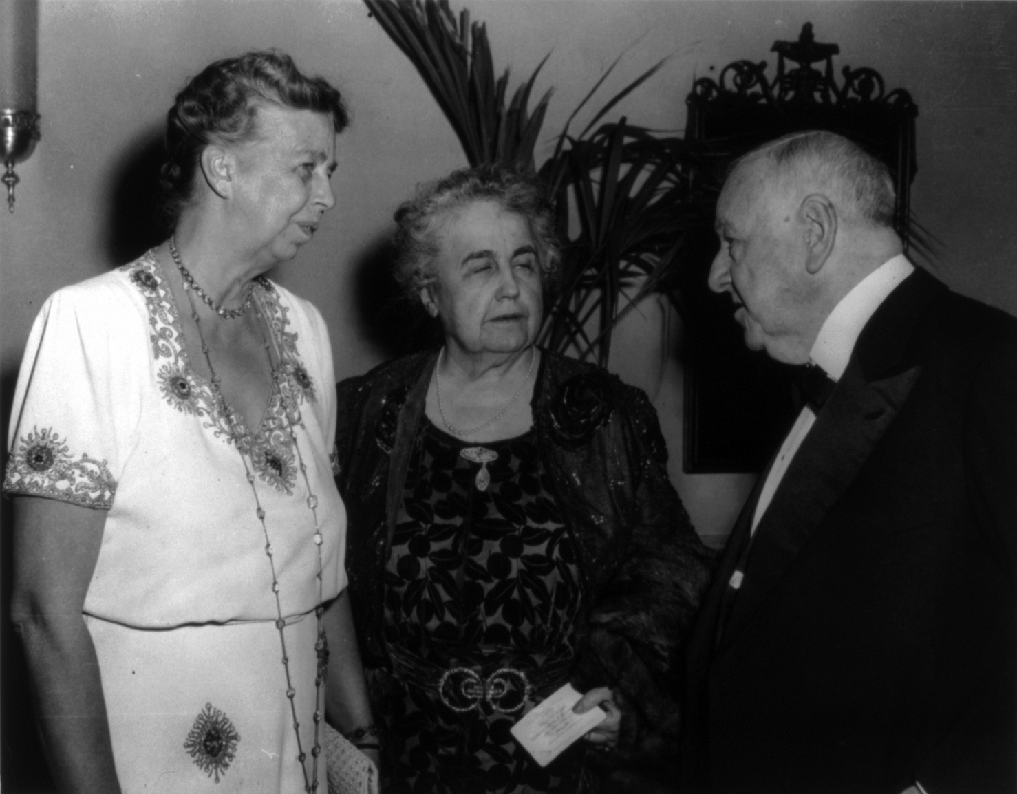 Left-to-right: Eleanor Roosevelt, Edith Wilson and Josephus Daniels